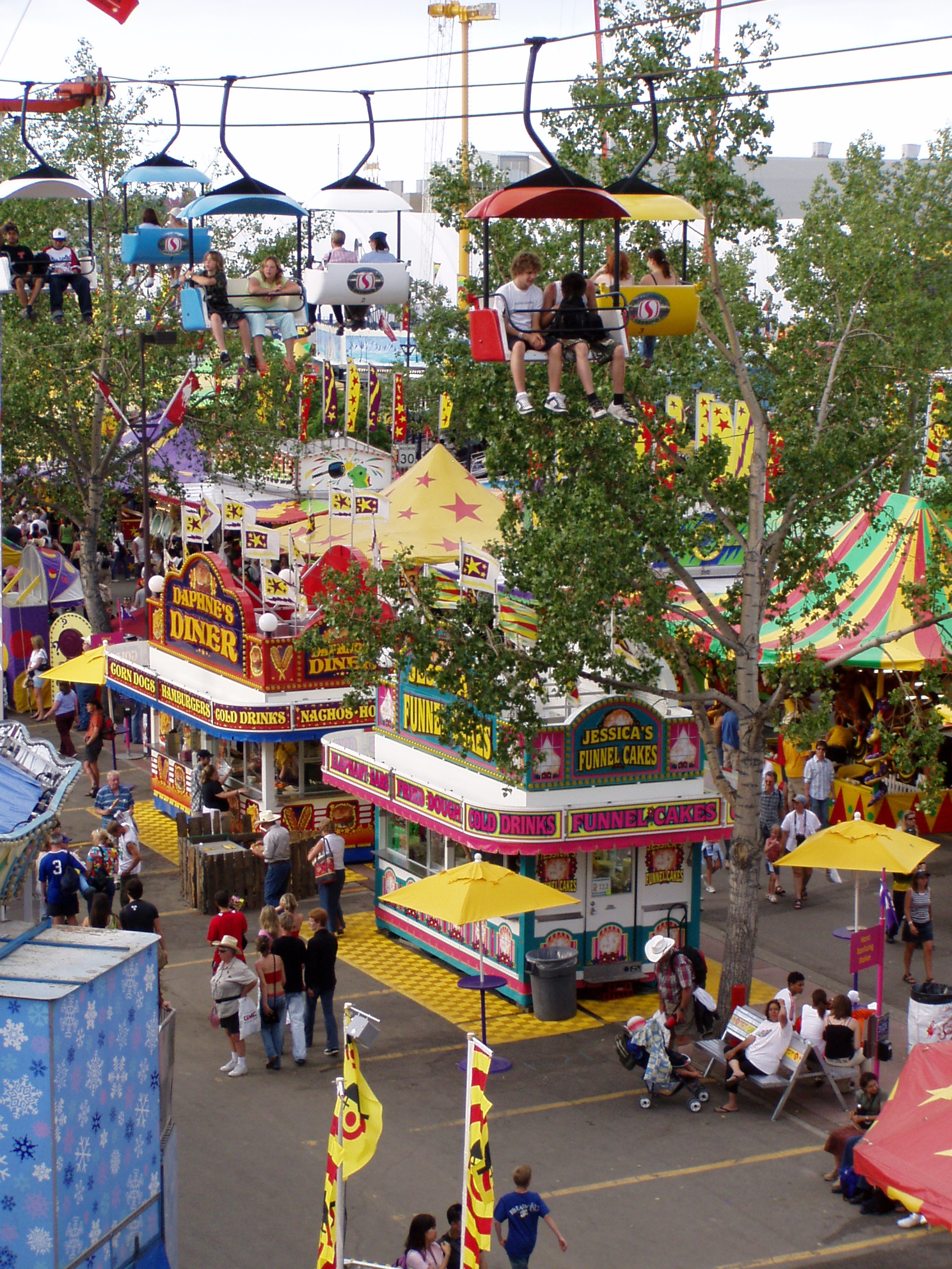 Calgary Stampede Grounds, Calgary, July 8, 2005 Photo taken from the Ferris Wheel